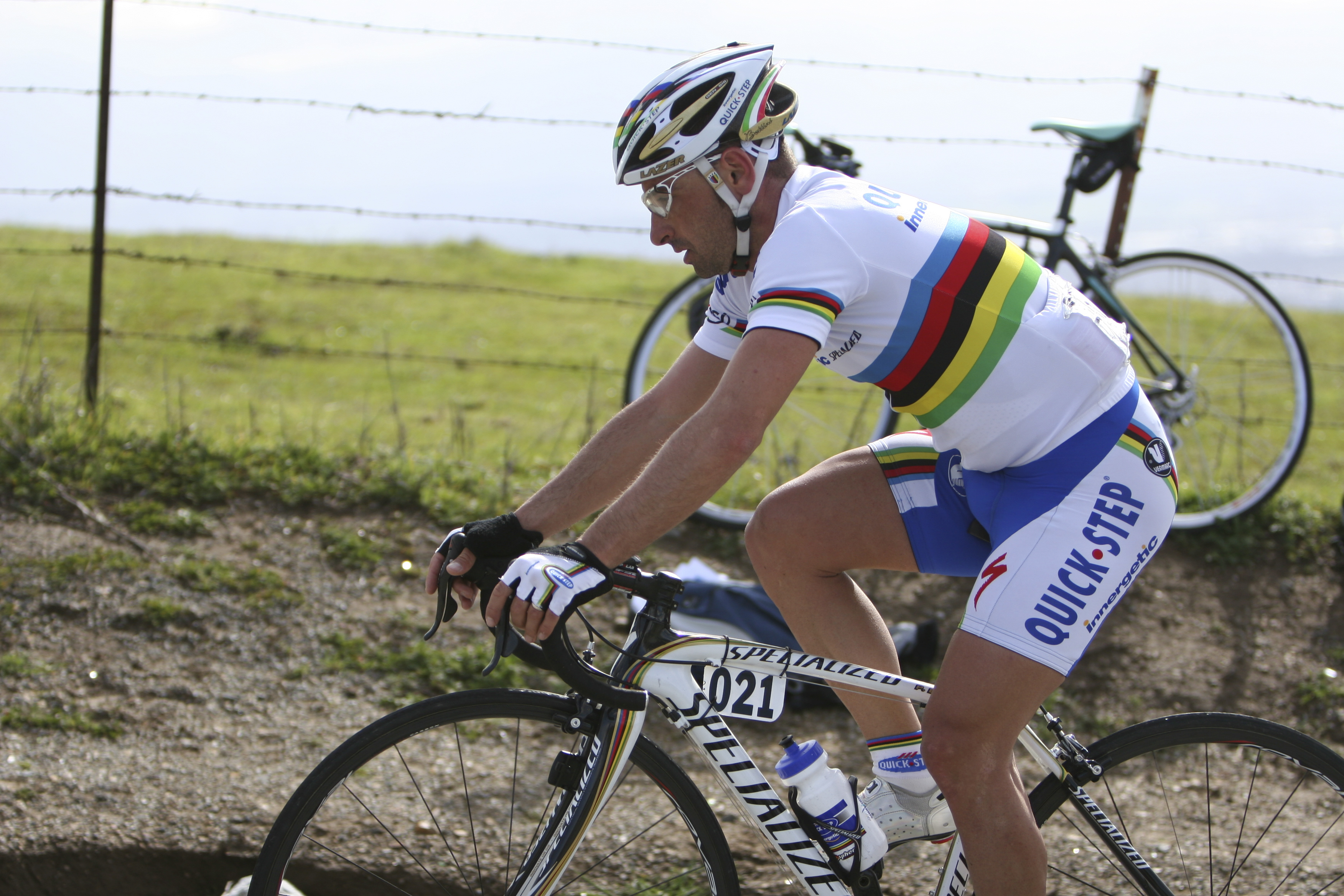 Paolo Bettini. 2008 Tour of California, Stage 3